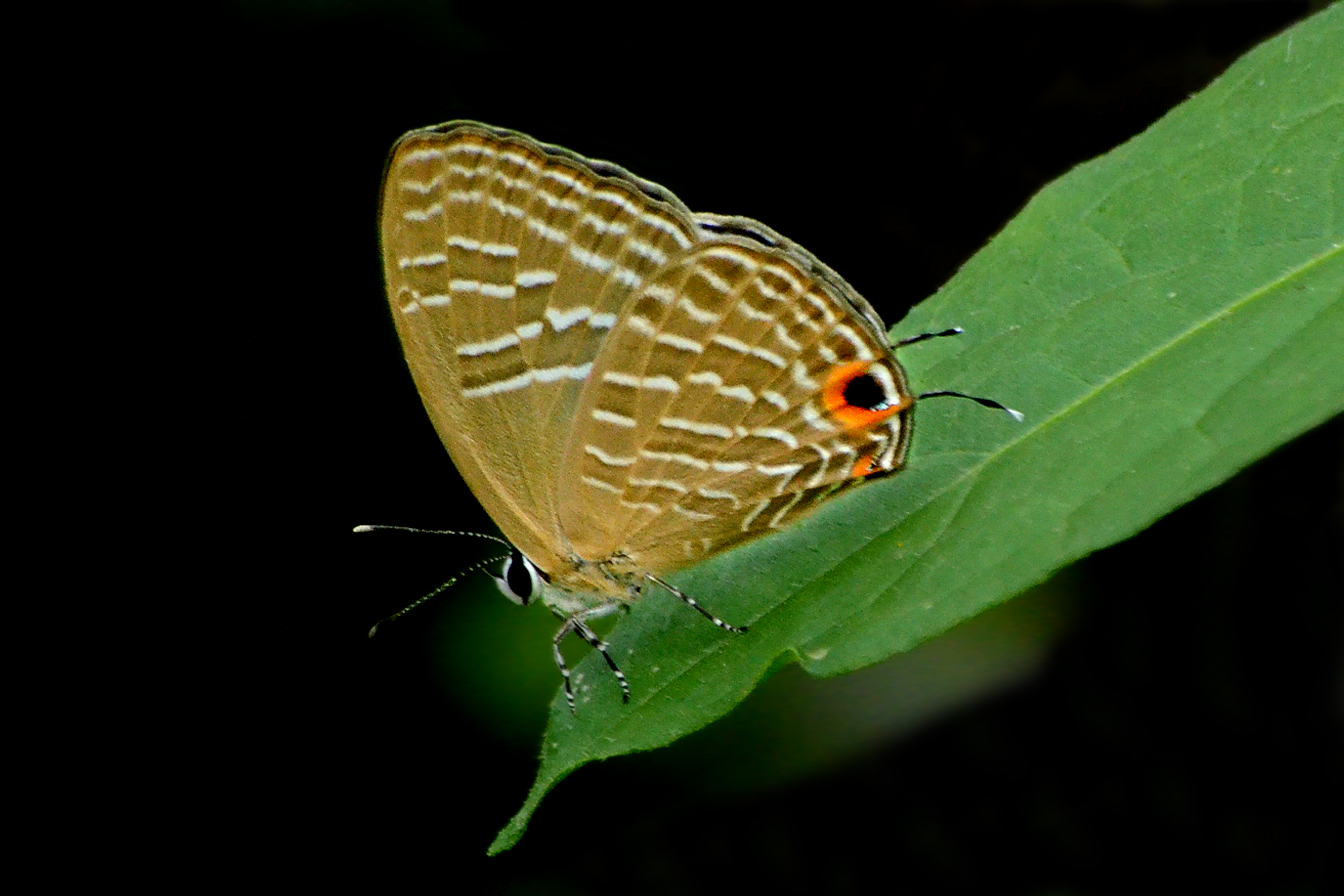 Close wing position of Jamides elpis Godart, 1824 – Glistening Cerulean. Subspecies: Jamides elpis pseudelpis Butler, 1879 – False Glistening Cerulean